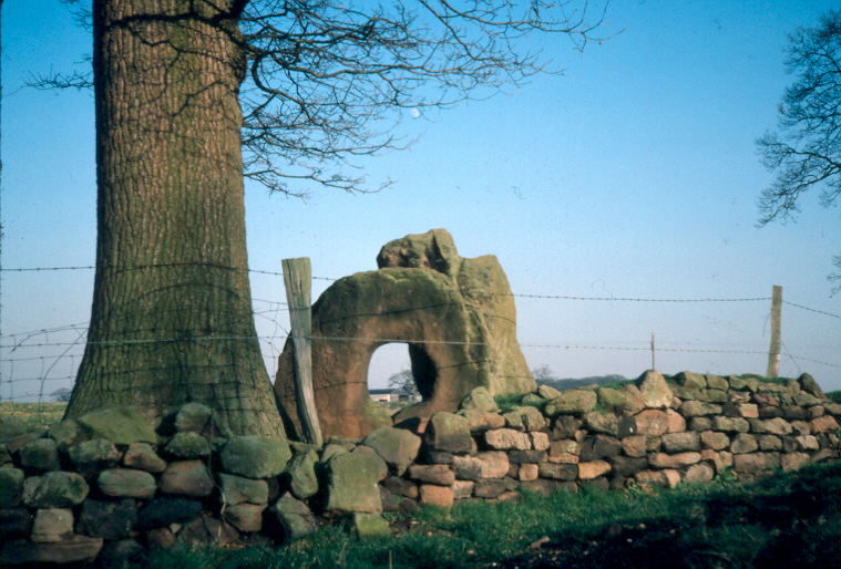 colour slide made by me Noel Walley on February 14 en:1981